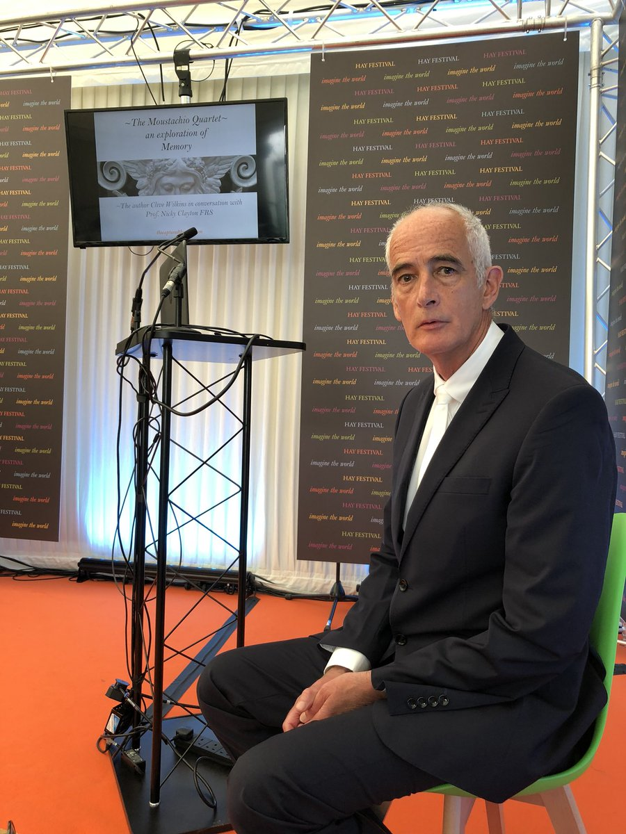 The artist, author and co-founder of The Captured Thought in conversation at The Hay Festival 2018 about his novels The Moustachio Quartet